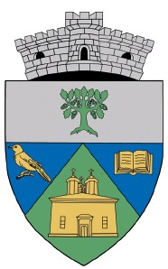 Coat of arms of Brănești commune, Ilfov County, RomaniaRomână: Stema comunei Brănești, județul Ilfov, România